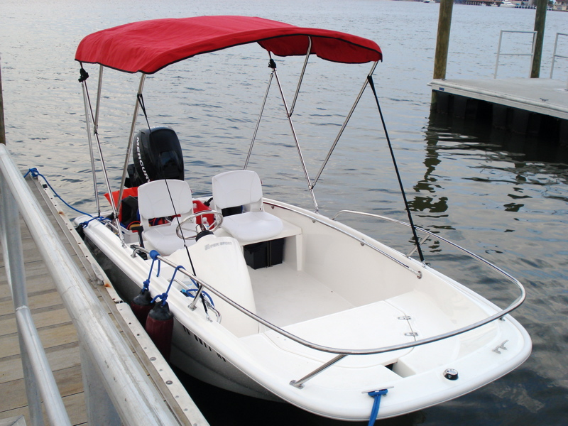 2009 Boston Whaler 130 Super Sport, photographed in Hollywood, Florida. It has been upgraded with a Bimini top with a stainless steel frame and fittings and Sunbrella® fabric, as well as two bow cleats and Tempress® seats. Factory options pictured include a full bow rail and a swim ladder (not visible).